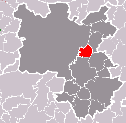 Location of Letkov municipality within Plzeň-City District.